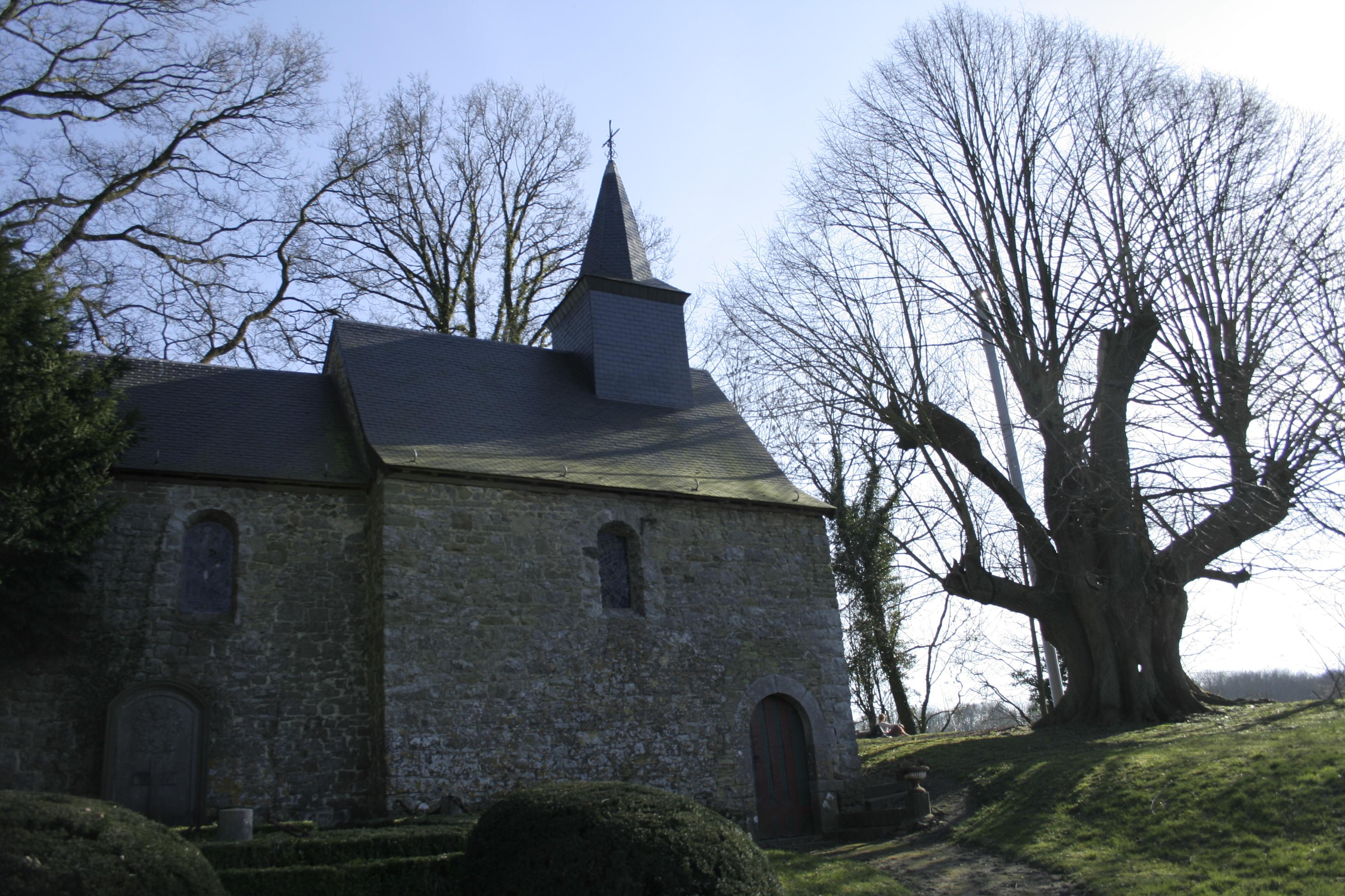 Common Lime